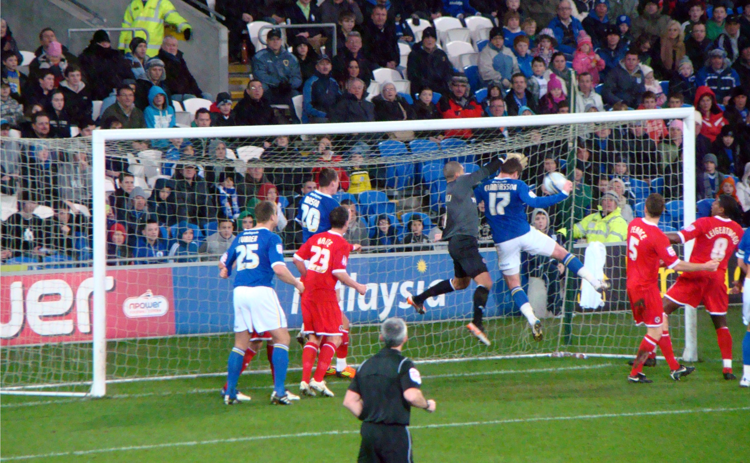 Iceland player Aron Gunnarsson scores a goal for Cardiff City against Reading